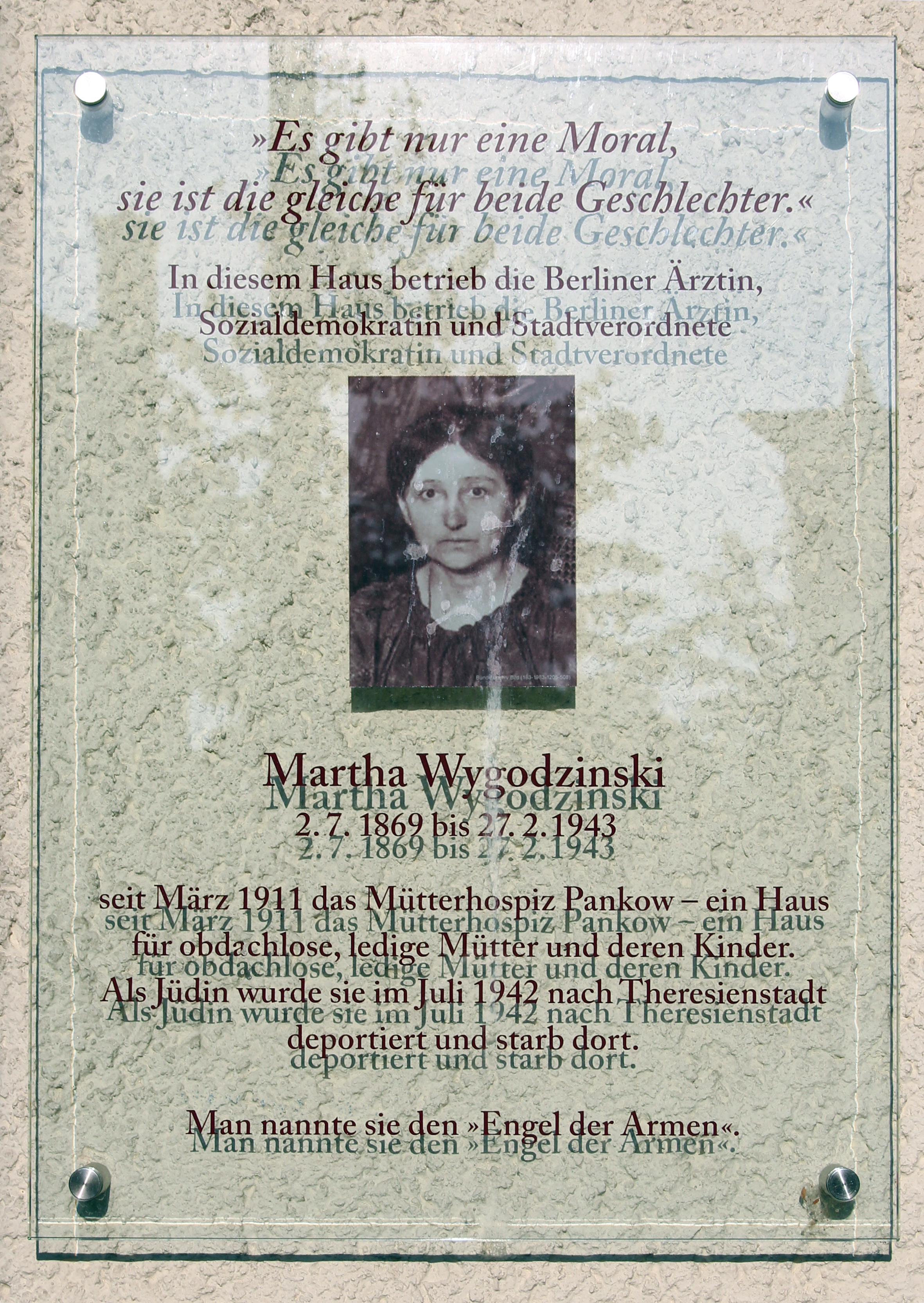 Memorial plaque, Martha Wygodzinski, Neue Schönholzer Straße 13, Berlin-Pankow, Germany